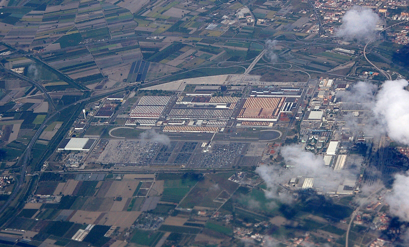 Aerial photograph of former Alfa Romeo Pomigliano d'Arco Plant